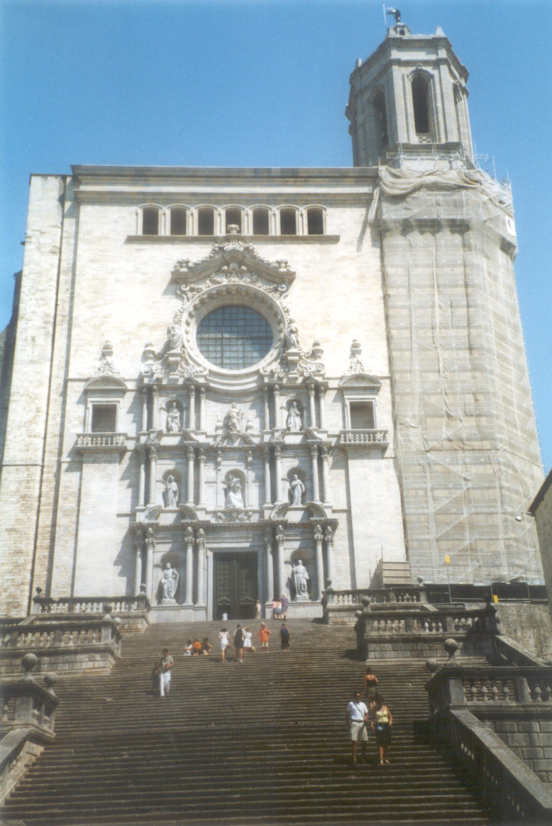 Cathedral of Girona, Catalonia, Spain. Front view